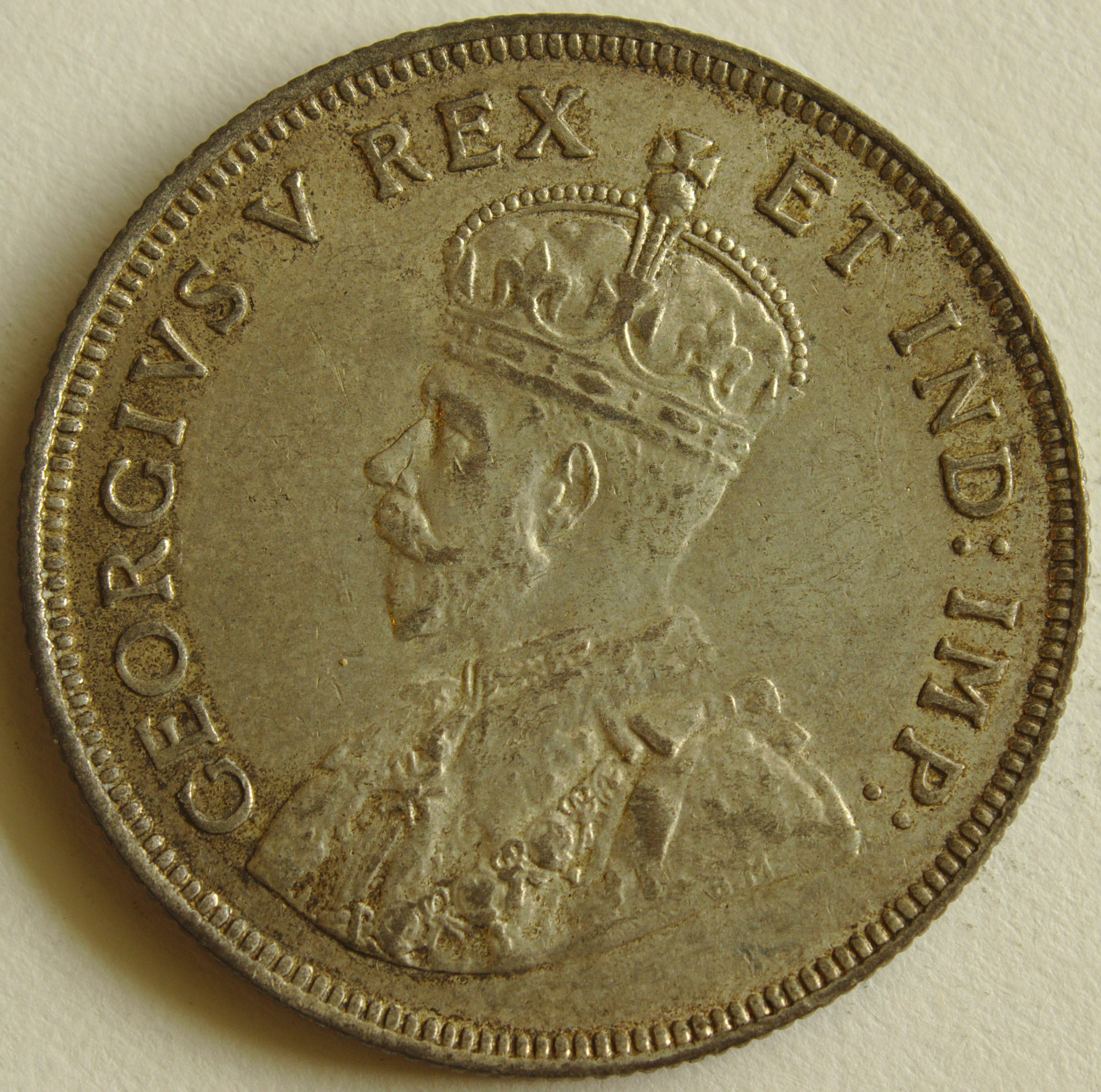 Obverse face of 1925 East African 1 shilling coin. Reverse face is at File:1925 East African 1 Shilling coin reverse.jpg